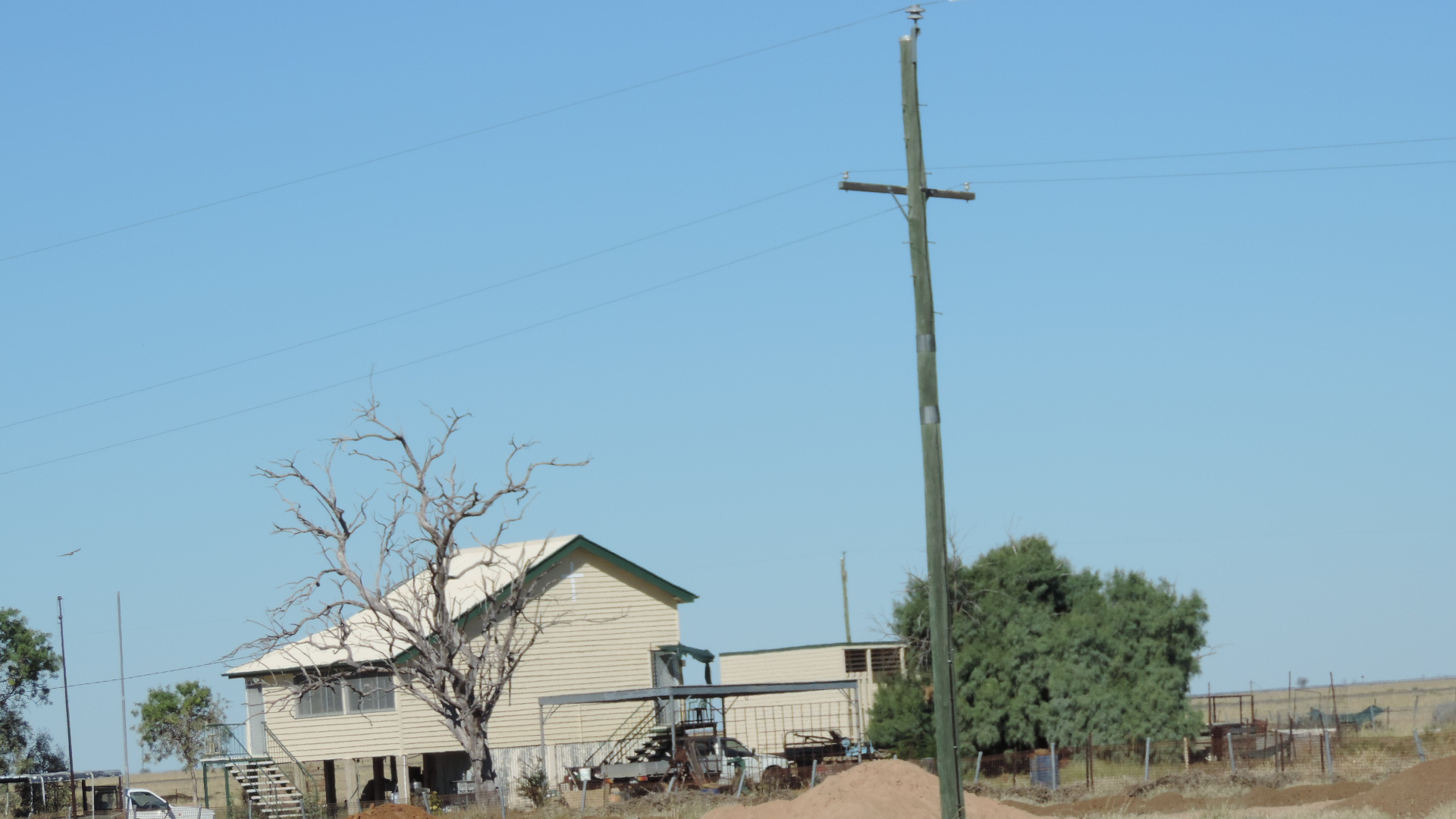 House (formerly Maxwelton State School) and power lines in Maxwelton, 2019